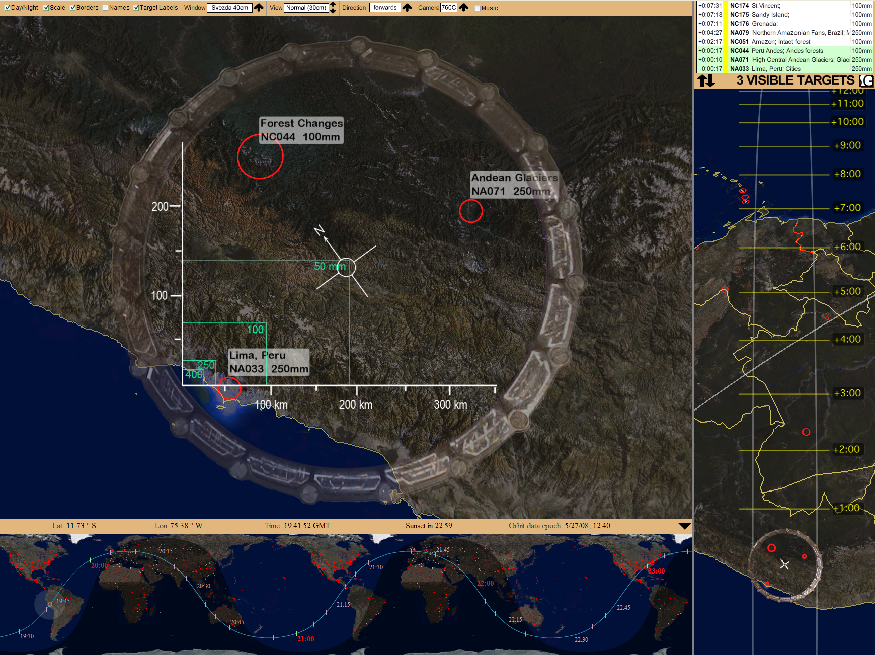 Screen capture from Windows on Earth. The top left image shows the coast of Peru with three marked targets; the bottom left shows the orbital track, with the current location marked by the white circle on the left edge of the map; and the image on the right shows the 10-minute look-ahead, with the upcoming targets for his photography.